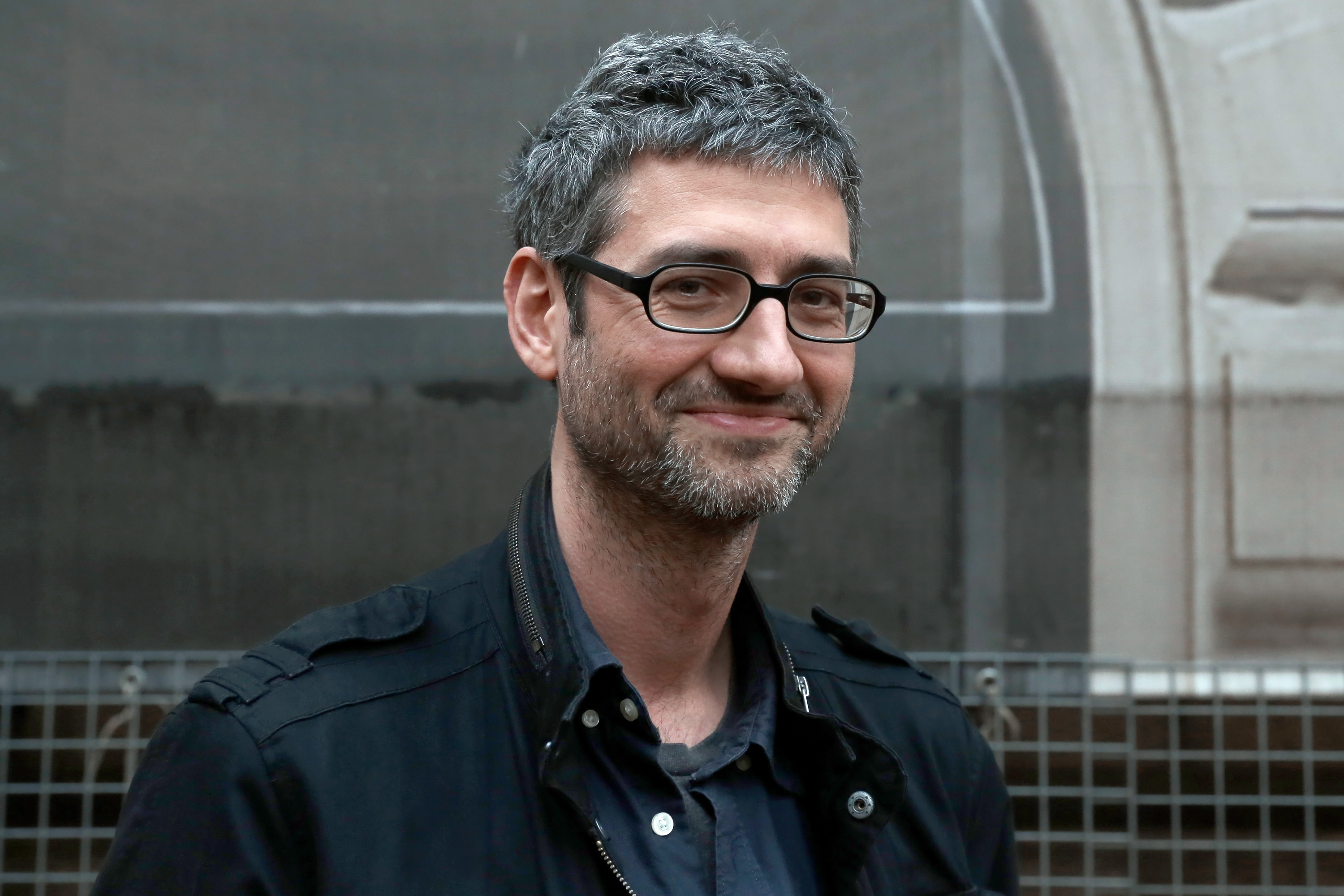 Jury member Nicolas Mahler at the film festival Vienna Independent Shorts 2014 at Stadtkino at Vienna Künstlerhaus (Vienna, Austria).